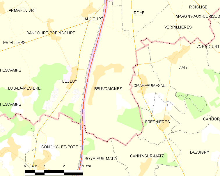 Map of French municipality Beuvraignes